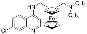 chemical structure of ferroquine